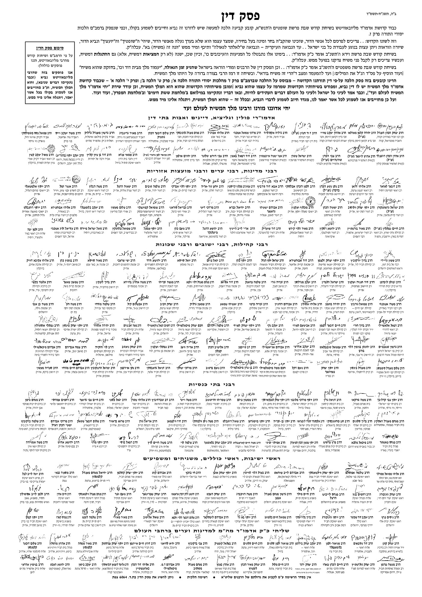 'Psak din' The Lubavitcher Rebbe is the messiah